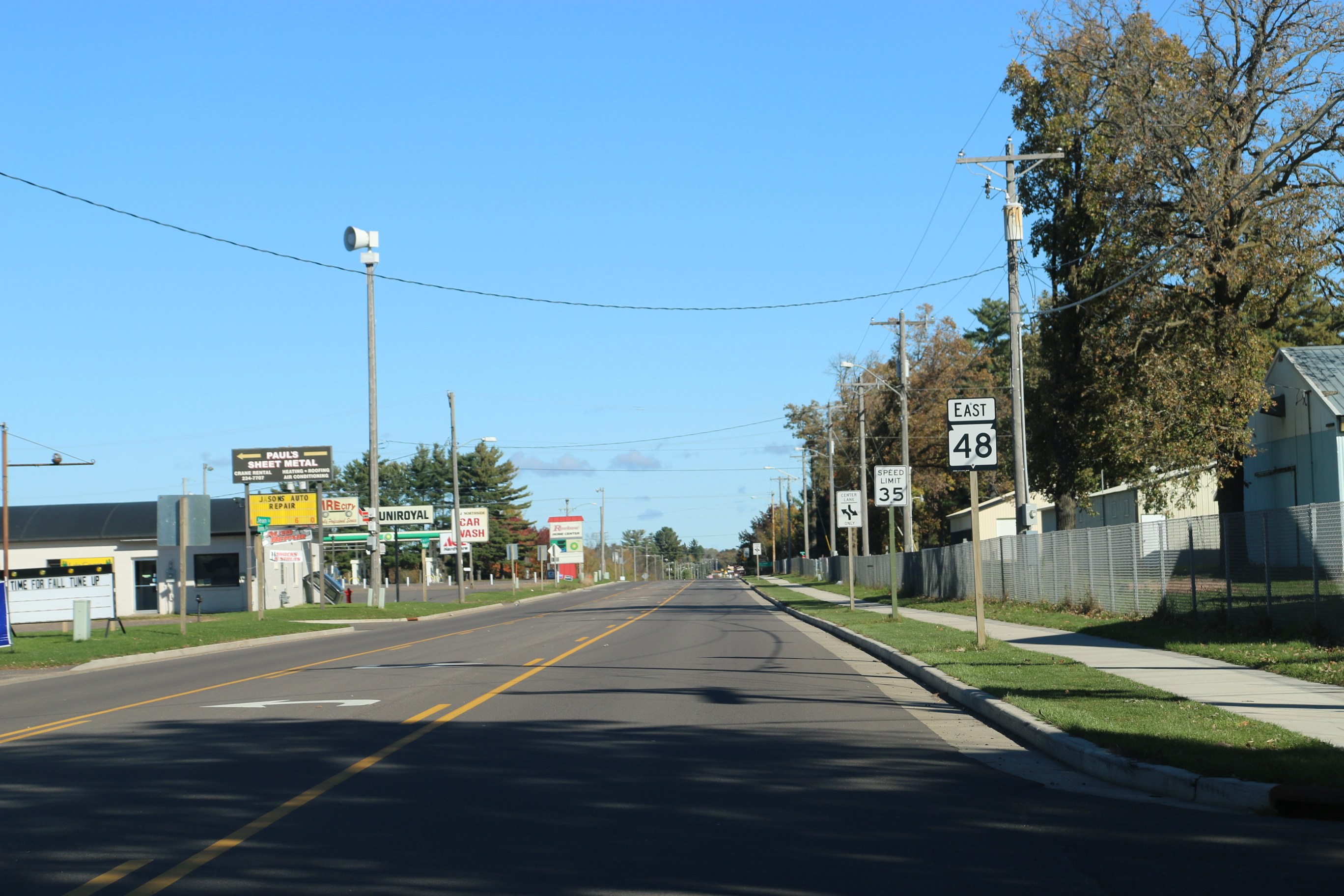 Looking north in Rice Lake, Wisconsin on WIS48.